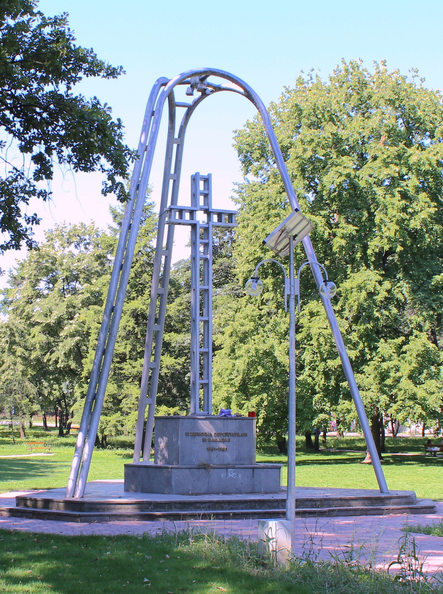 Justice Park in Timisoara, Romania